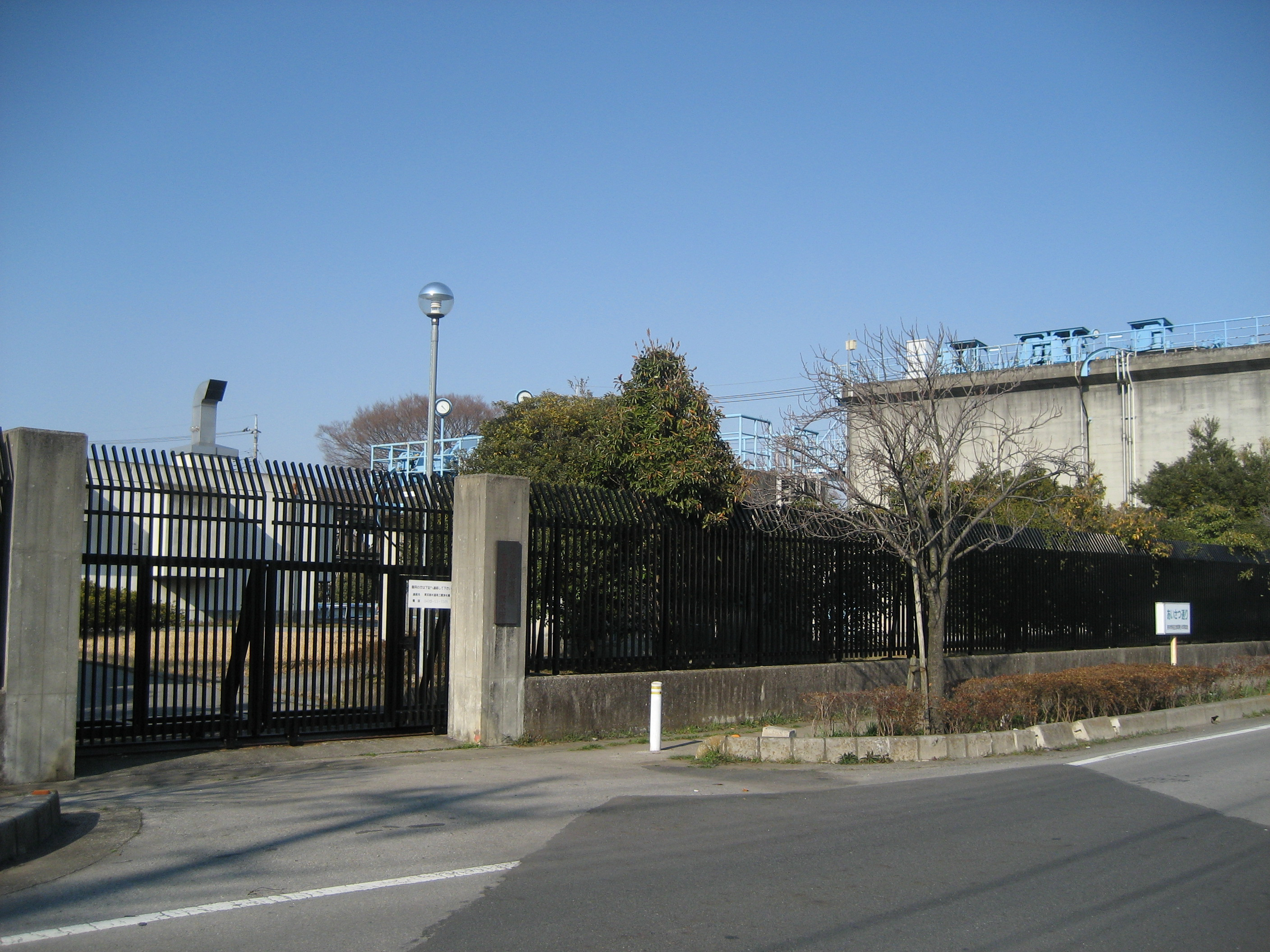 Misato Water Purification Plant